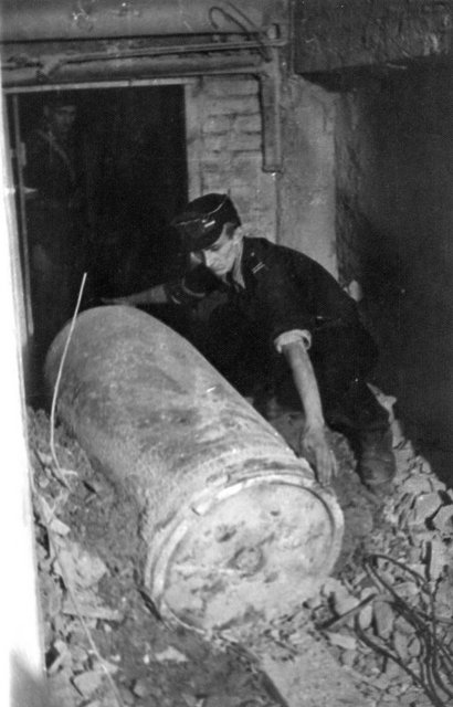 Warsaw Uprising: Measuring length of 600 mm dud ammunition from "Karl" mortar. According to source number 1 and 2: in basement of "Adria" at Moniuszki 10 street on August 18. According th source number 3 in basement of Prudential building at Napoleon Square on August 30.